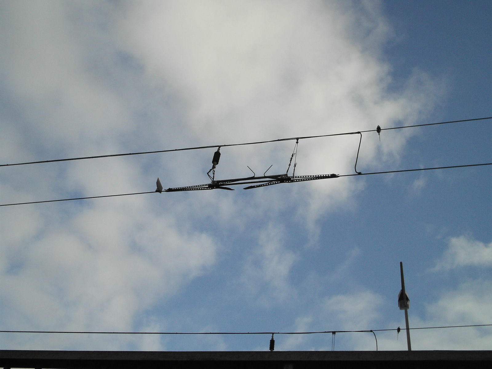 Section limiter, Swedish railway